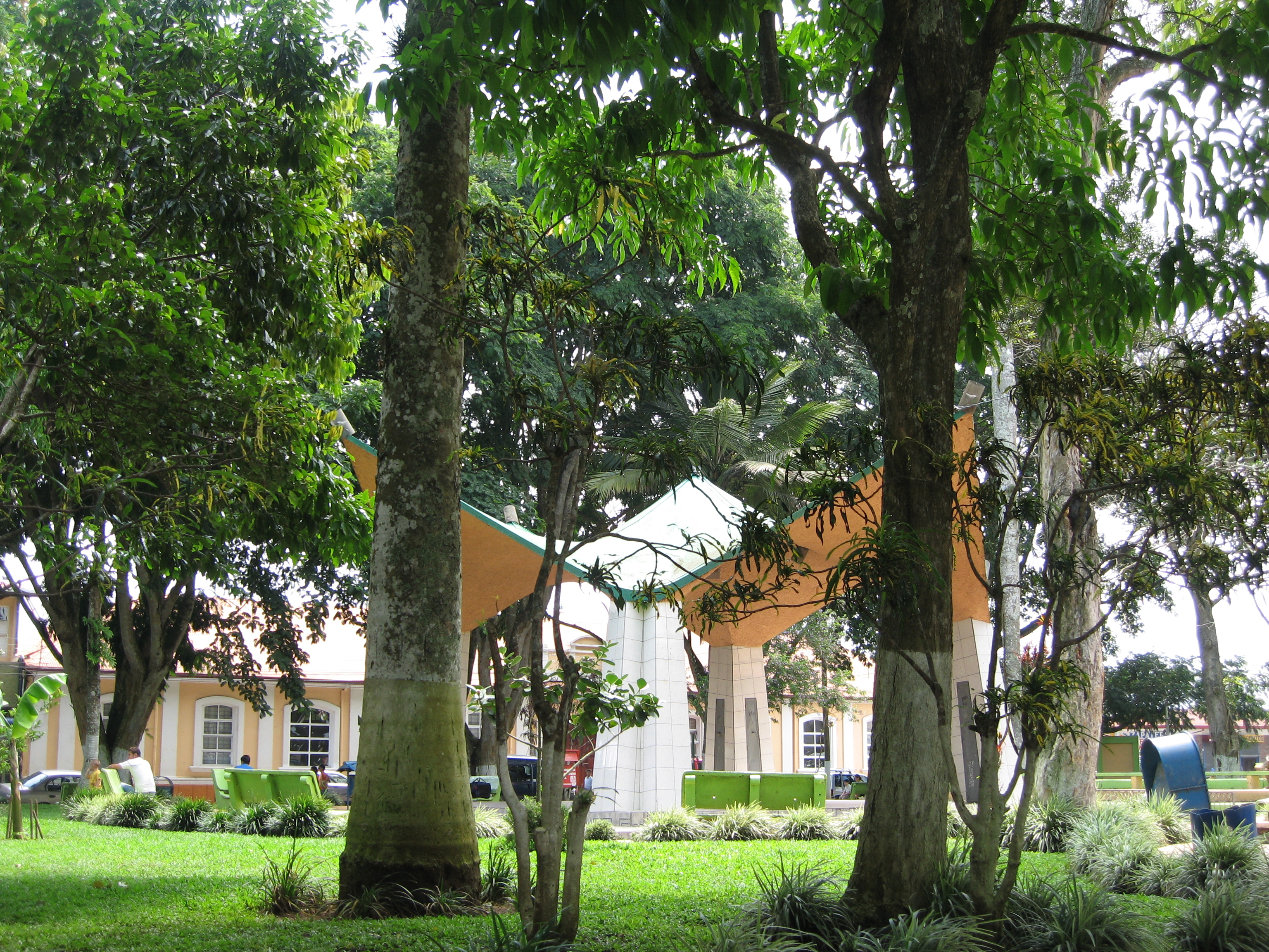 Central Park, San Ramon, Alajuela, Costa Rica